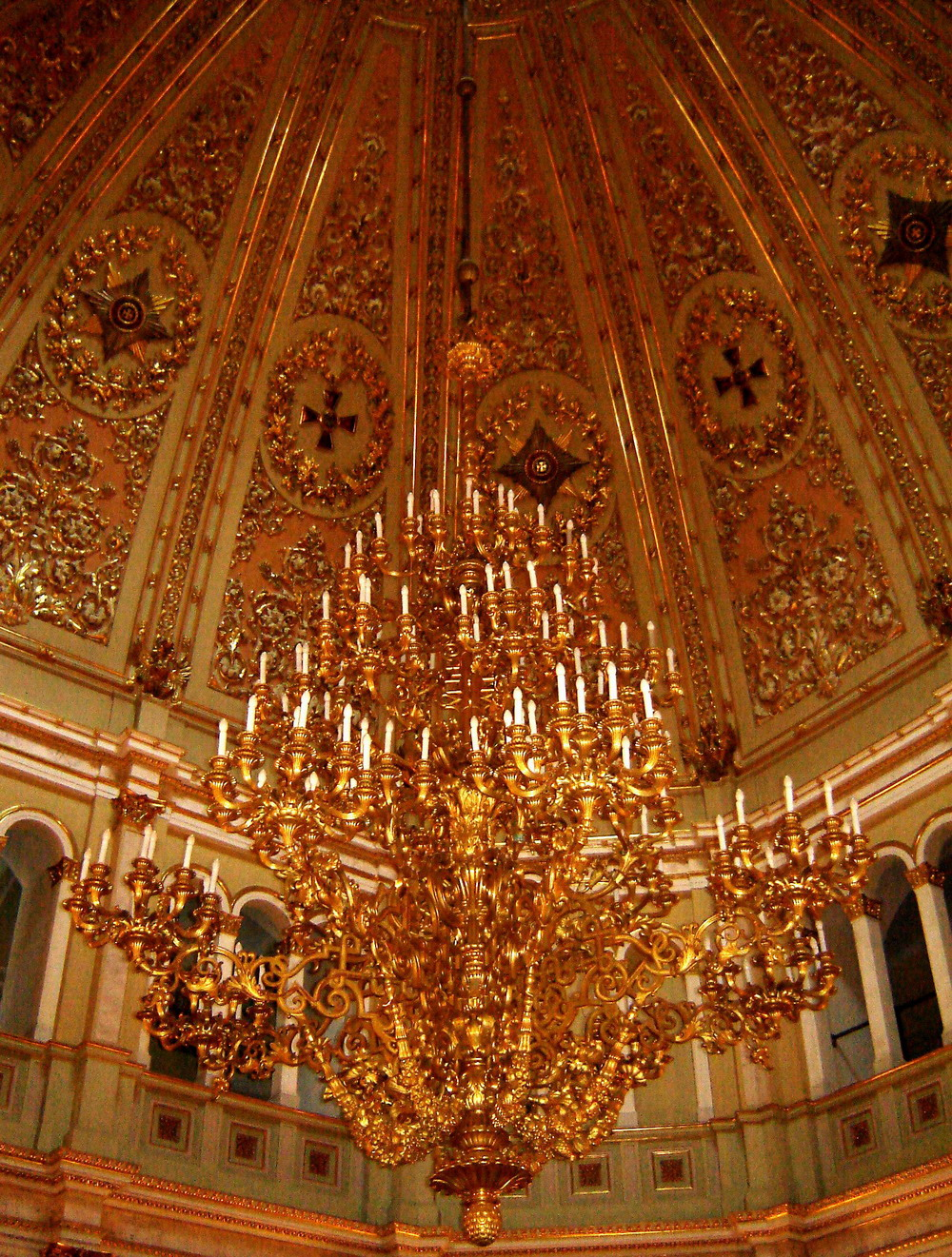 Interior of the Vladimir hall. Grand Kremlin Palace, Moscow, Russia